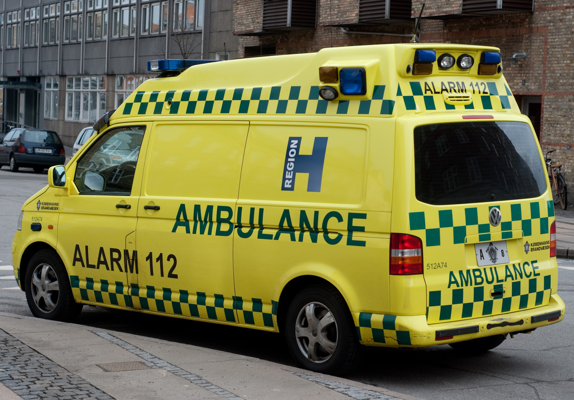 The new national ambulance design, introduced in 2009. Here on a ambulance operated in Region H (Copenhagen)